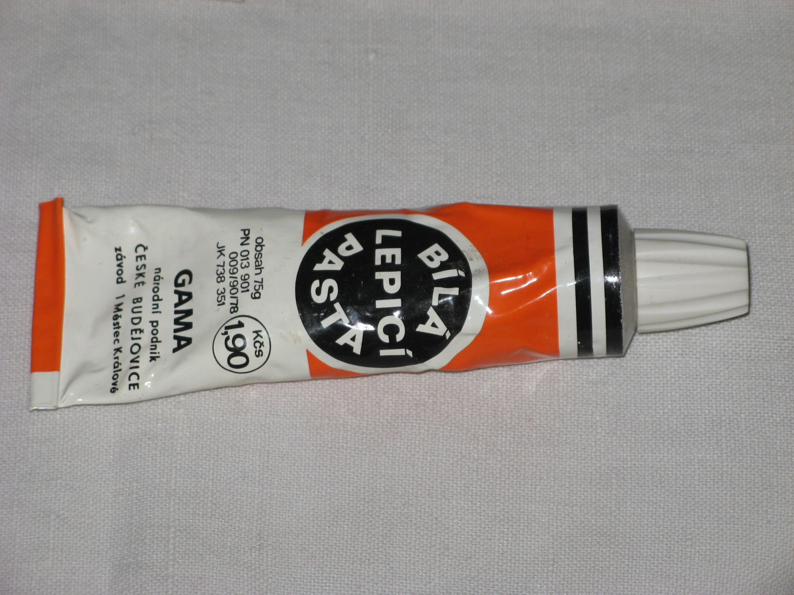 Czechoslovak adhesive from 1980s